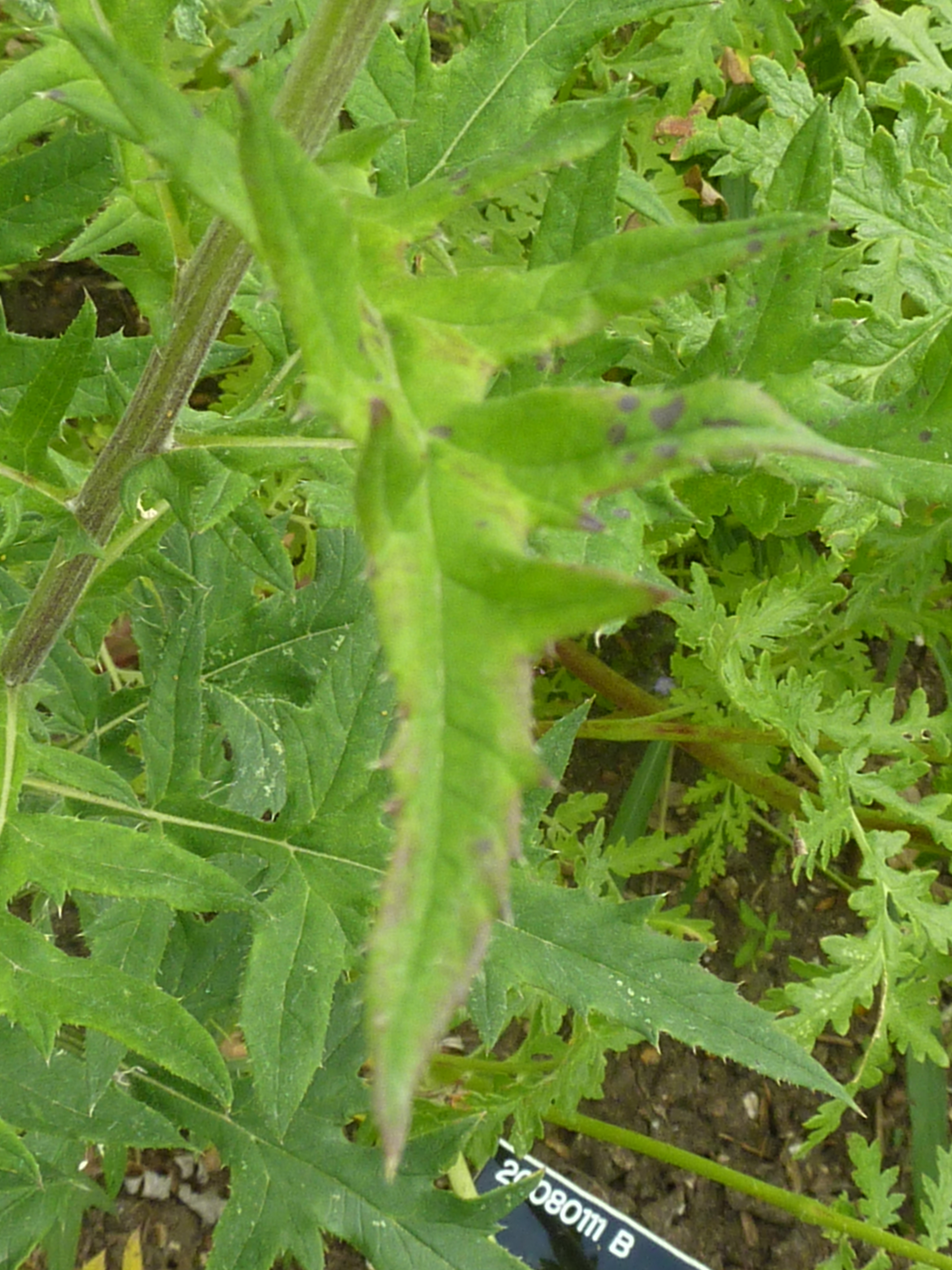 Taken in the Cambridge University Botanic Garden